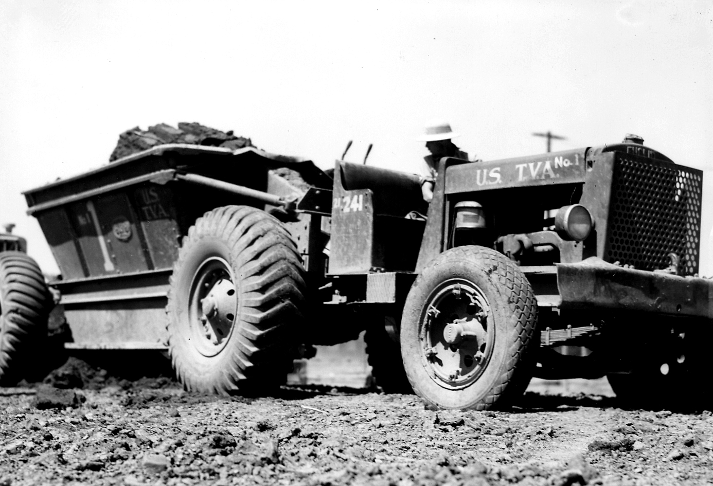 Early Euclid Off-highway dumper (c. 1935) used by the Tennessee Valley Authority in 1936.